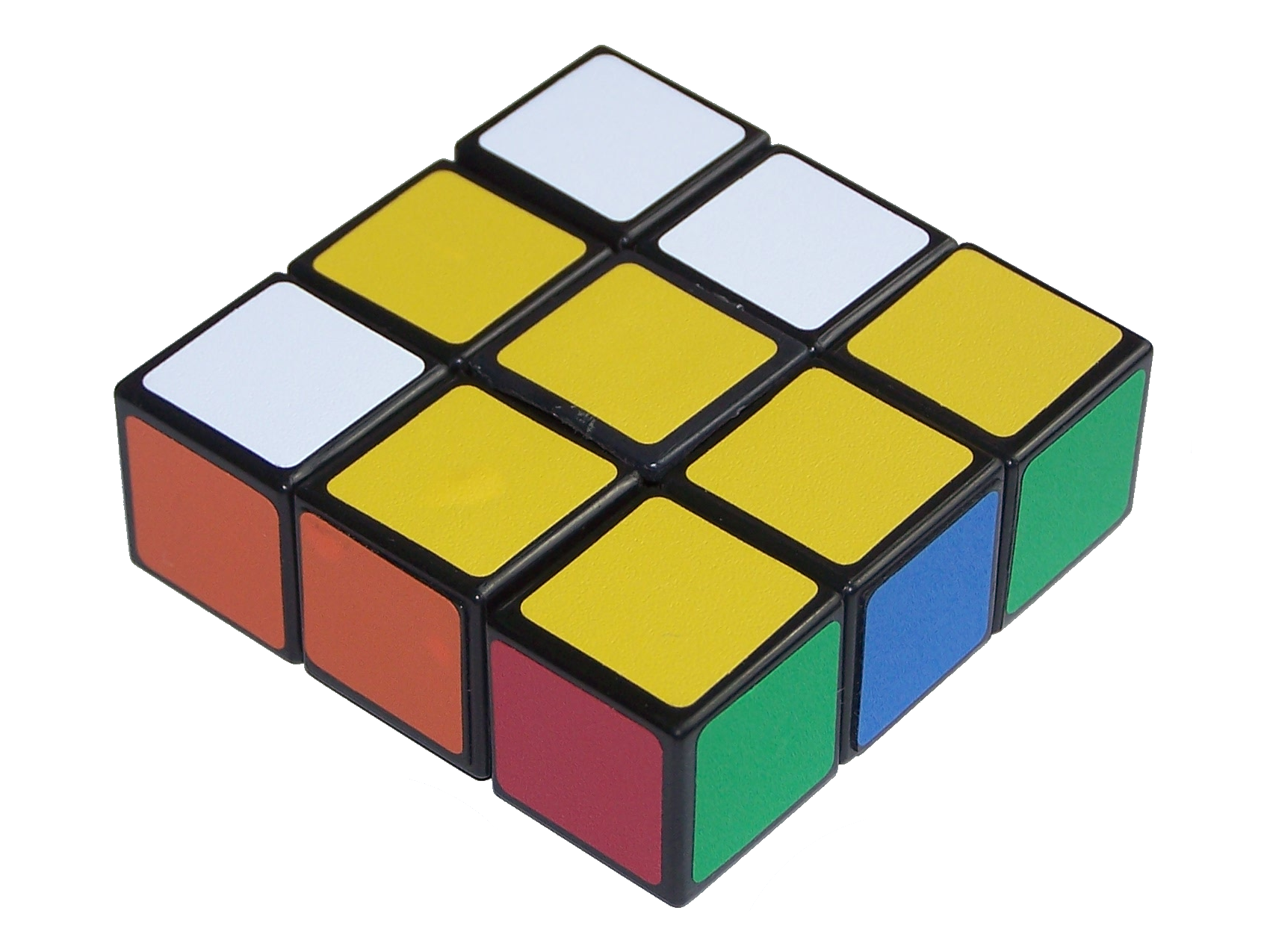 This kind of Rubik's Cube is called Floppy Cube or 3×3×1. You can see it here in the scrambled state. His mechanism allows to turn the front, the right, the back and the left side, and also the two inner layers 180°. You can them turn 90°, too, but then you can't turn anything else, without turning your side the rest of the 180° (and the two layers, which are parallel to your side). The total number of permutations of the Floppy Cube is 192 and you can it solve always in less or exactly 8 moves.